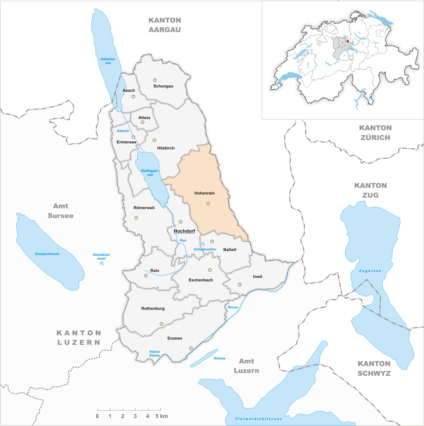 Municipality Hohenrain